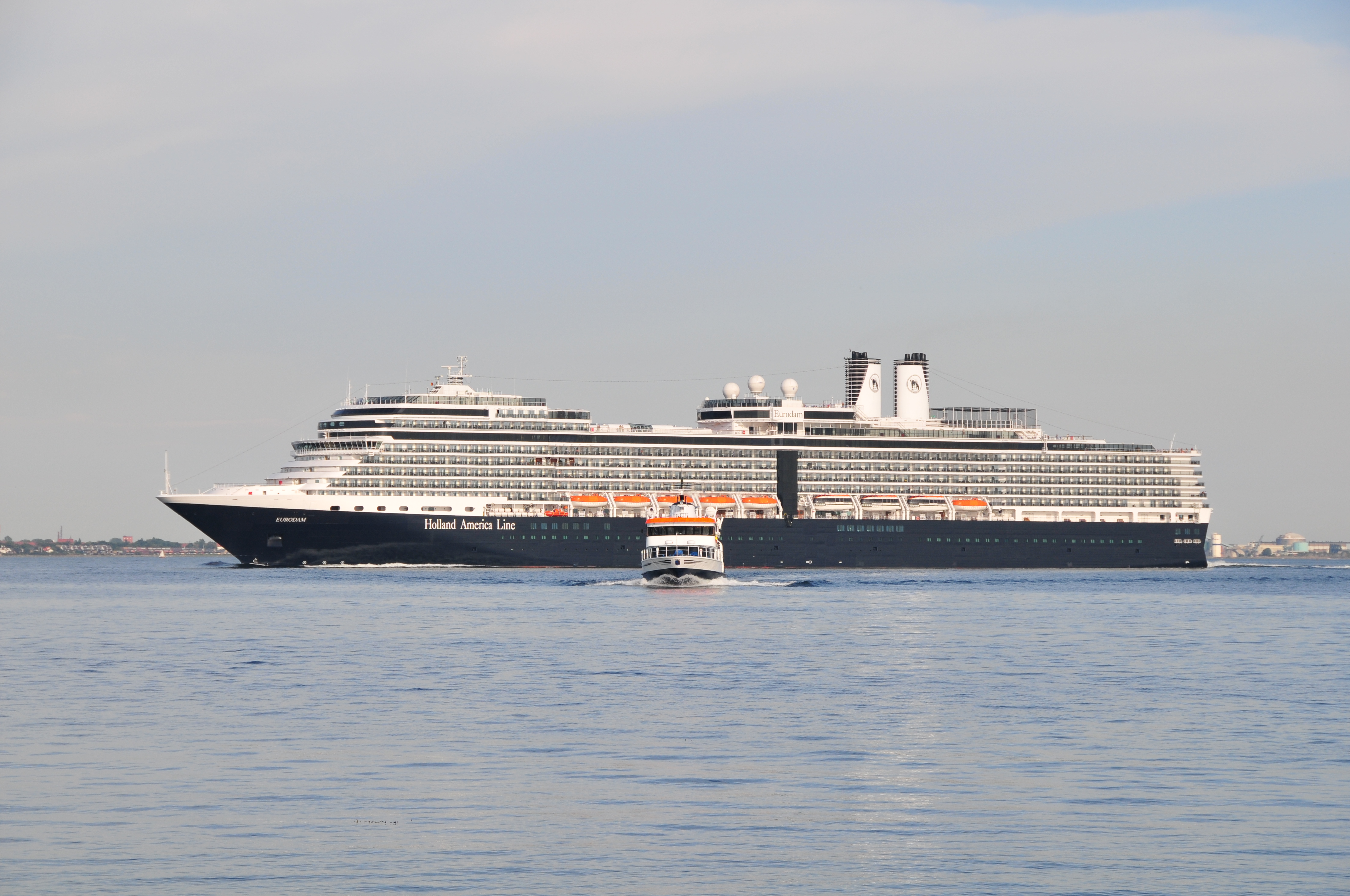 Eurodam in Öresund on the way from Copenhagen 2008-07-05